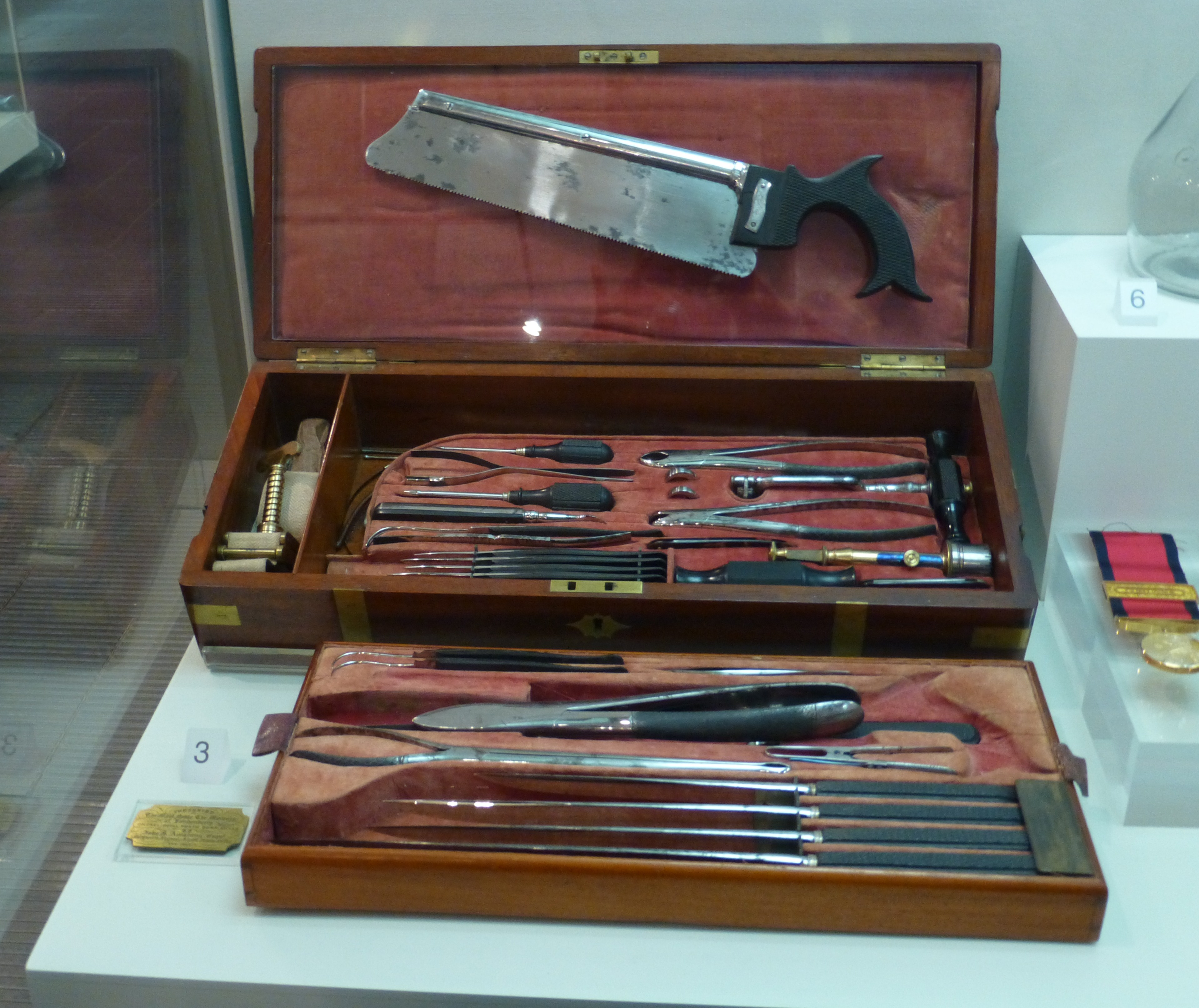 Military surgeon instruments 1855